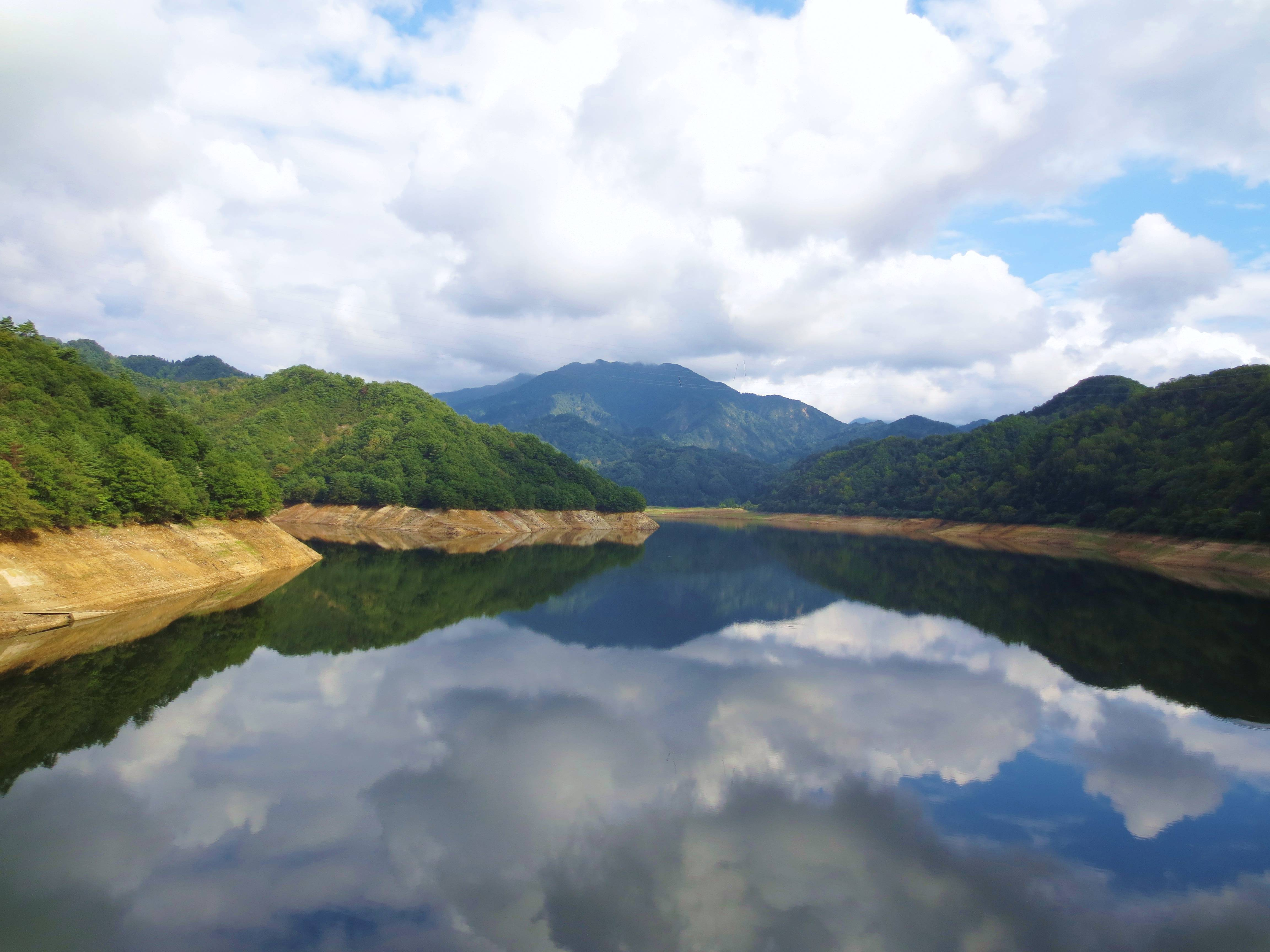 Lake Uchinokura.